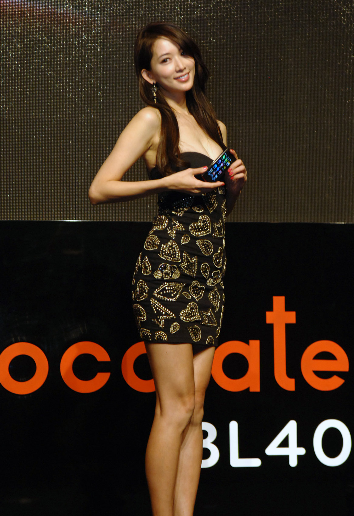 Lin Chi-ling (林志玲) at the LG New Chocolate Phone launching event for the BL40, 4 November 2009, Hong Kong